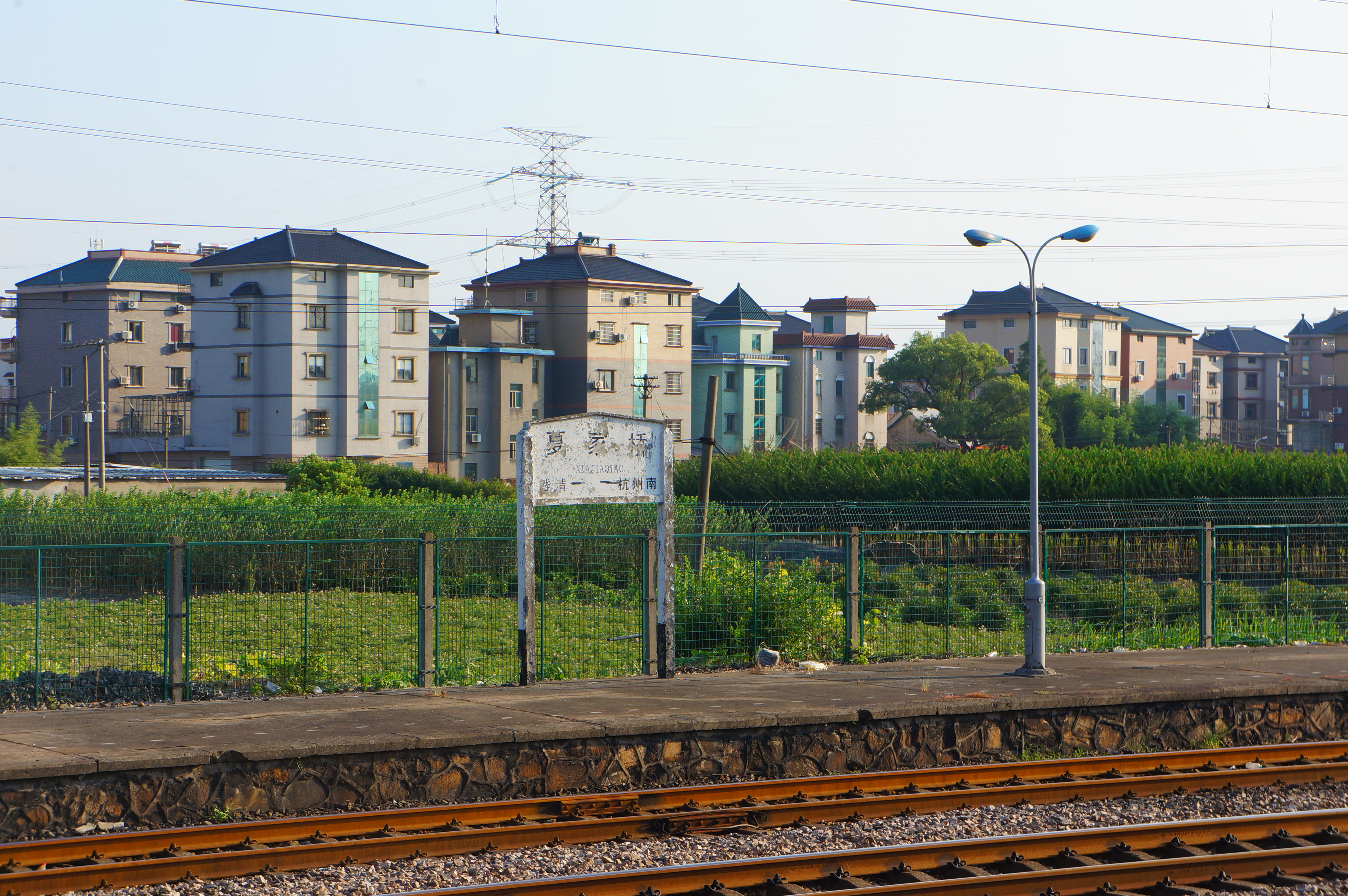 201607 Station Nameboard of Xiajiaqiao Station...the information on board is not recignizable as the station administrated by Hangzhou or Qiaosi Station...